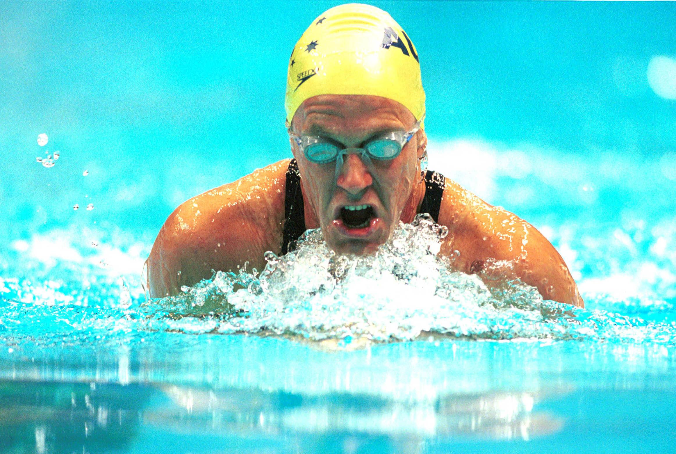 Action shot of Australian swimmer David Rolfe during competition at the 2000 Sydney Paralympic Games